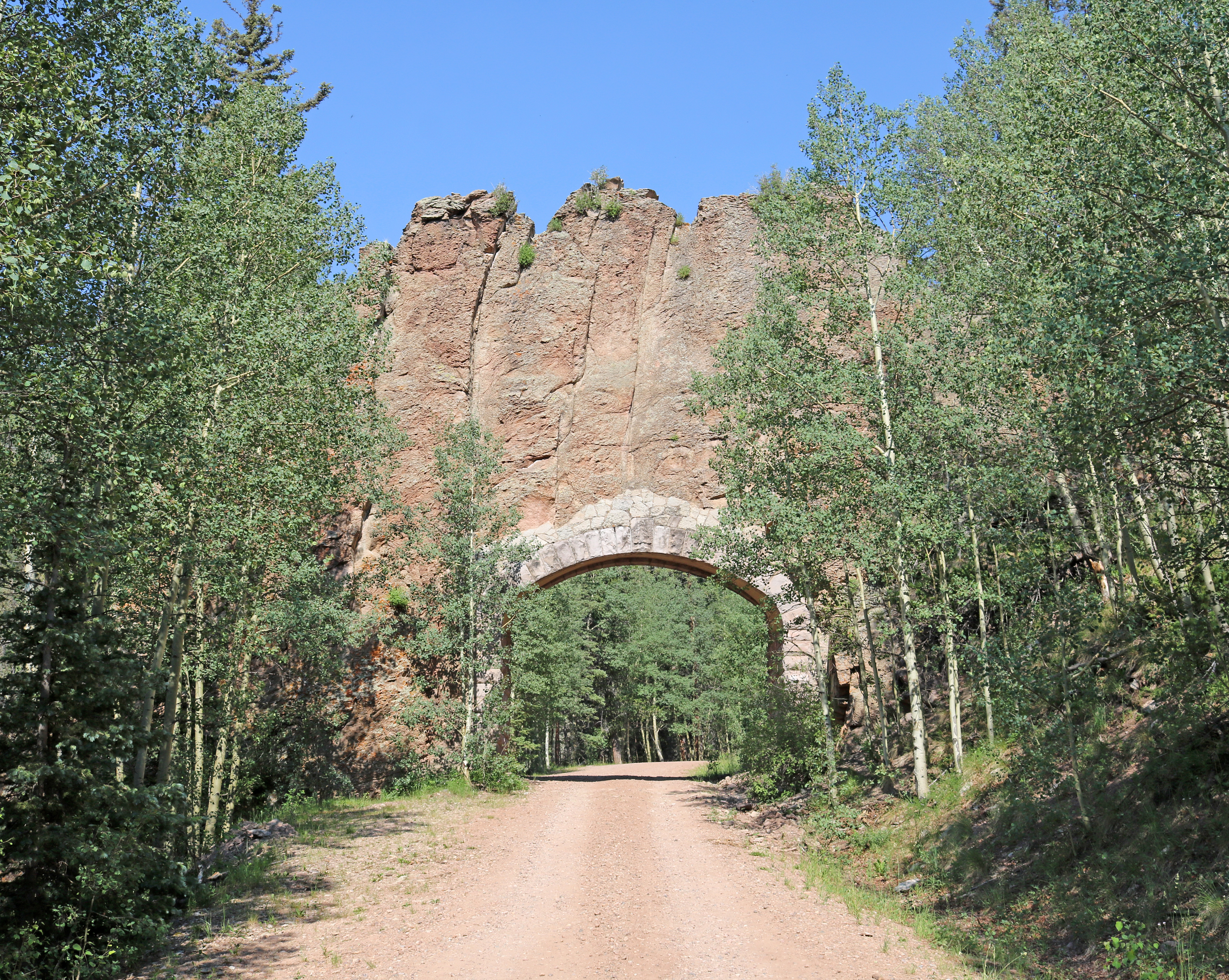 The Apishapa Arch, located on County Road 46 in Las Animas County, Colorado, near the West Spanish Peak. The arch is cut from a magmatic dike.